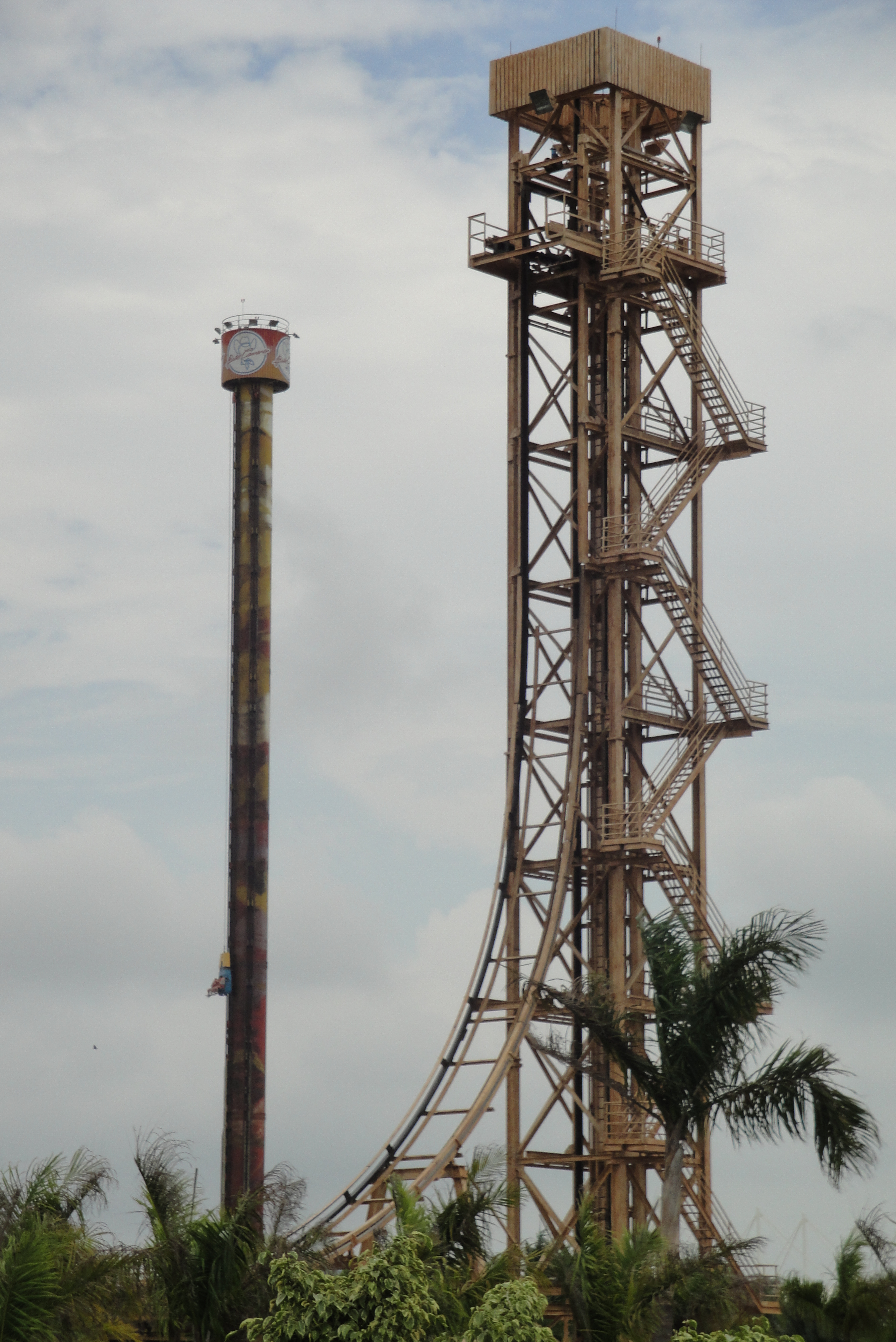 Big Tower e FreeFall